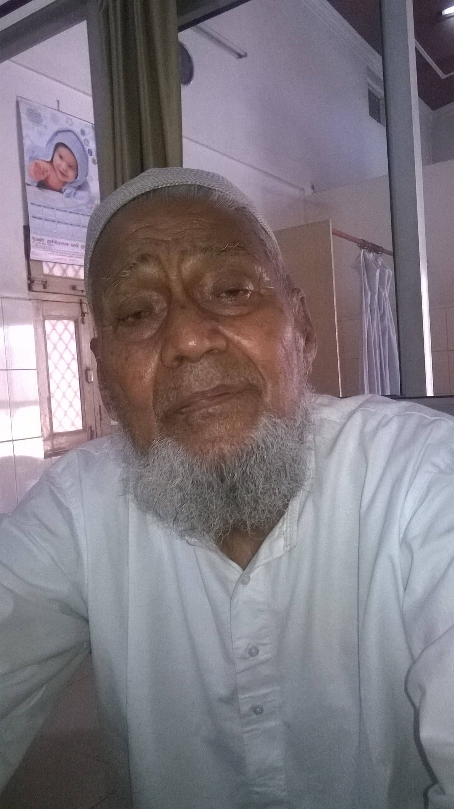 Master Jameel Ullah Khan is Senior Teacher of Bahraich City.Teacher of Azad Inter College Bahraich